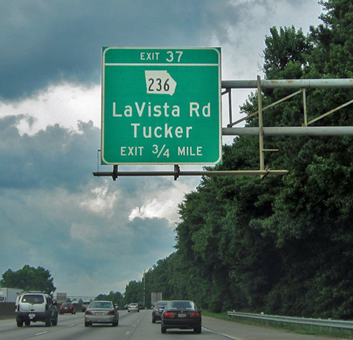 Exit sign and north bound traffic on I-285. Exit 37 to 236, LaVista Road Tucker, Georgia.